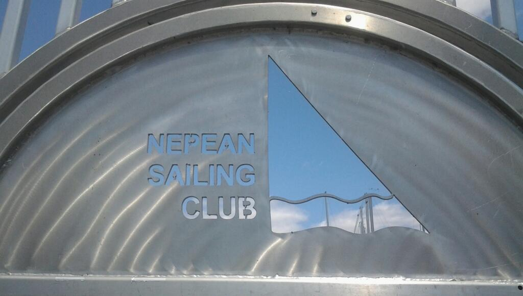 Nepean Sailing Club, Lac Deschenes, Dick Bell Park, Ottawa, Ontario, Canada.